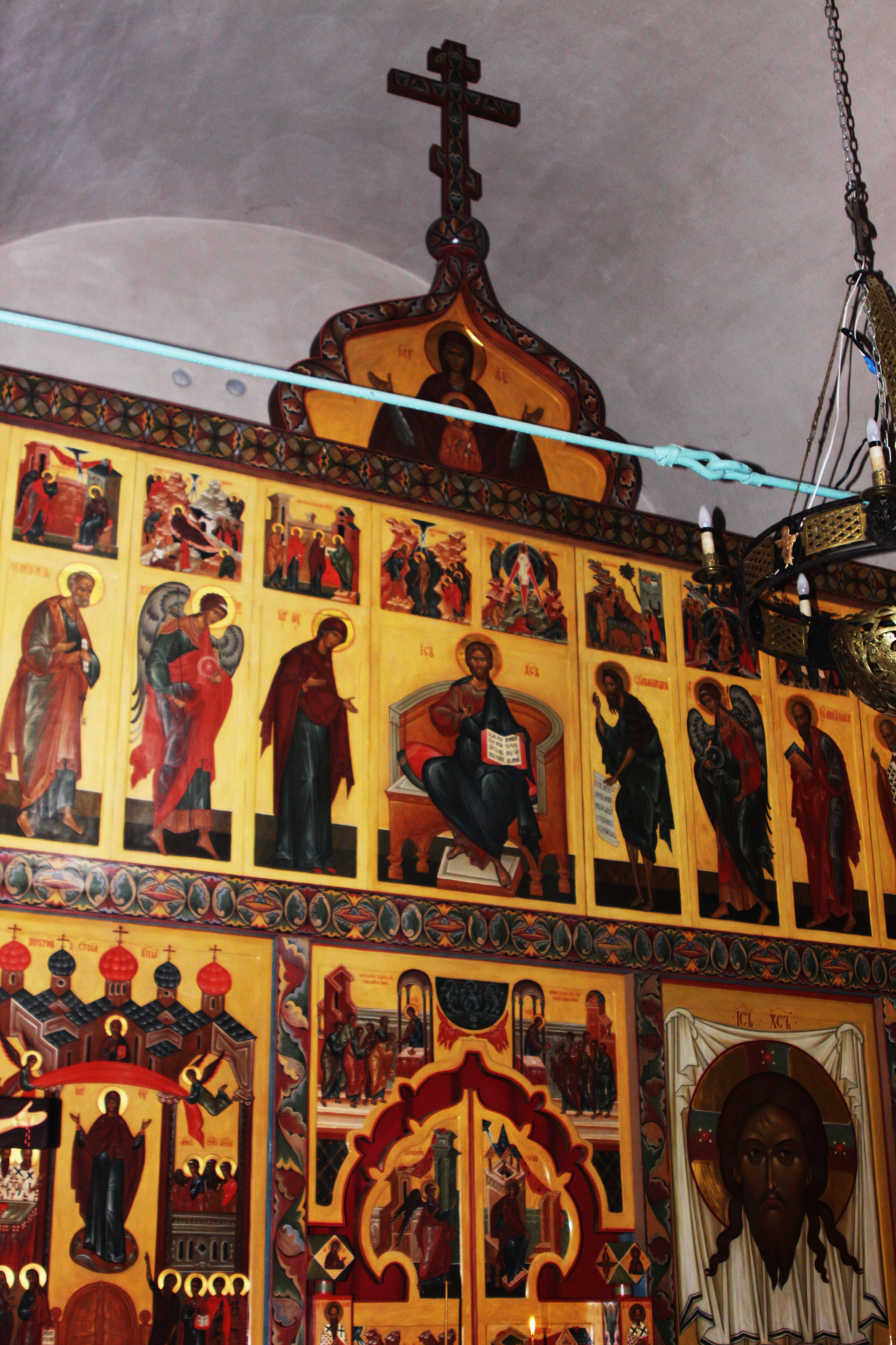 Tyablo Iconostasis Pskov